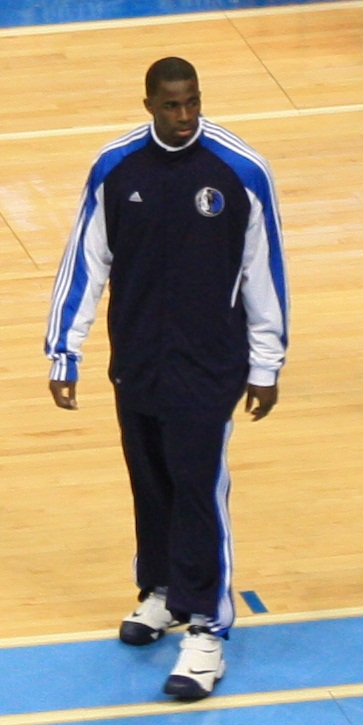 Brandon Bass warming up before game 5 of the second round series vs. Denver Nuggets on May 13, 2009.